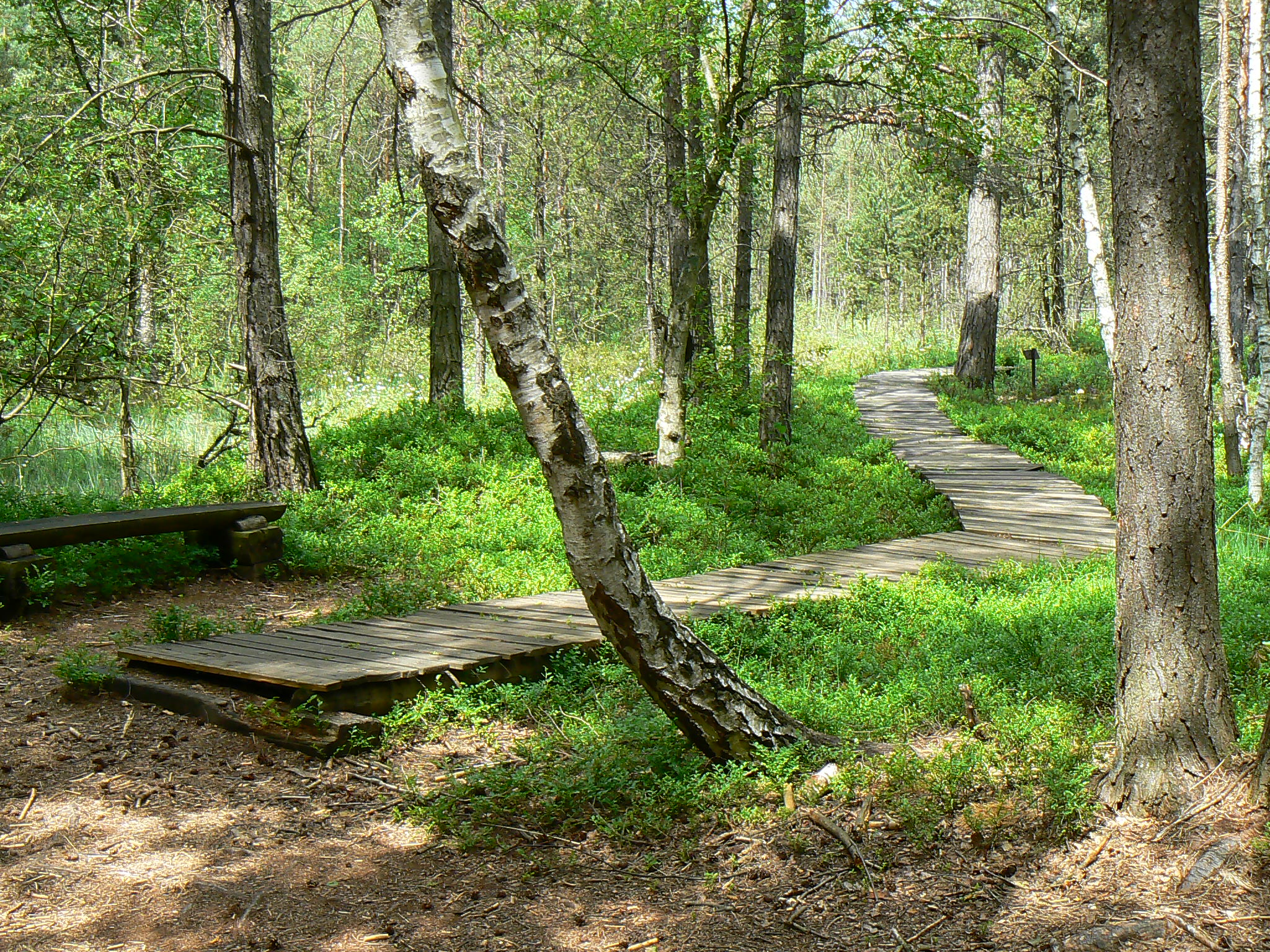 Borkovice Peat Bog, Czech Republic - a bench at the duckboard